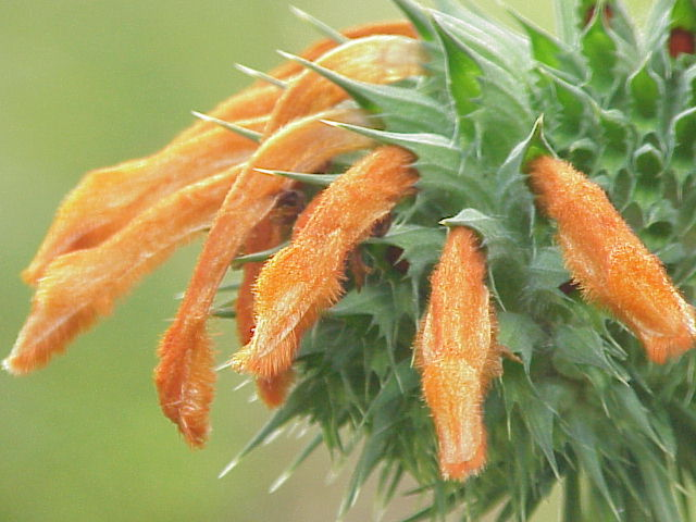 Species: Leonotis nepetifolia Family: Lamiaceae Image No. 1